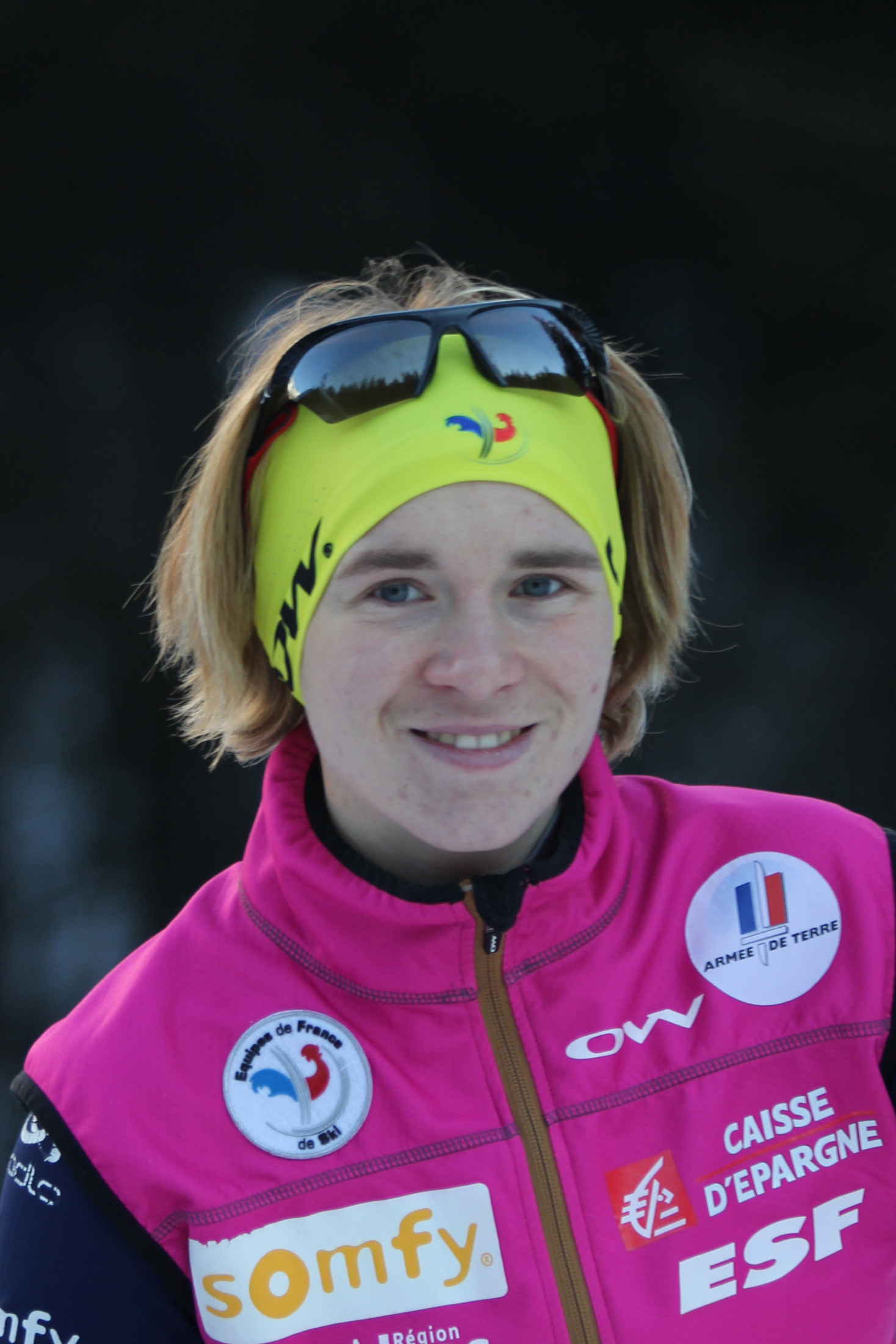 Anais Bescond at Biathlon Anterselva 2011